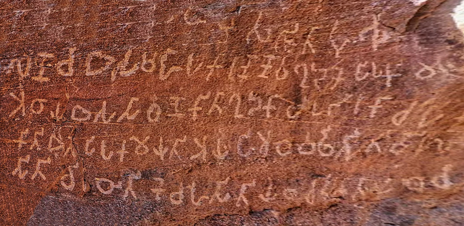 Saru-Maru Ashoka inscription (2nd section of Minor Rock Edict No.1). Identification here